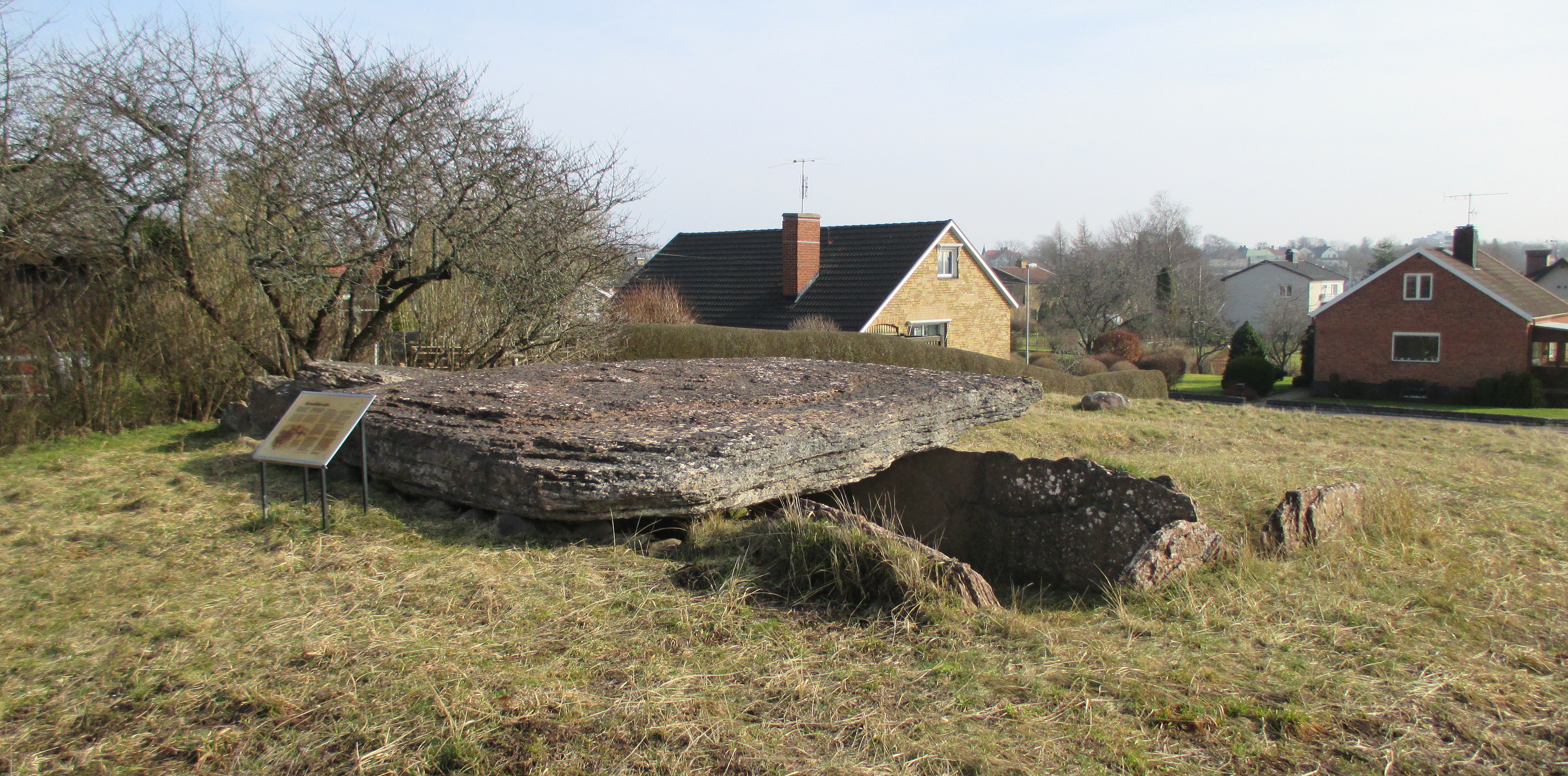 The Neolithic passage grave Gläshall (RAÄ No Falköping 18:1) at Danska vägen in Falköping, Falköping municipality, former Skaraborg county, Västergötland, Västra Götaland county, Sweden.